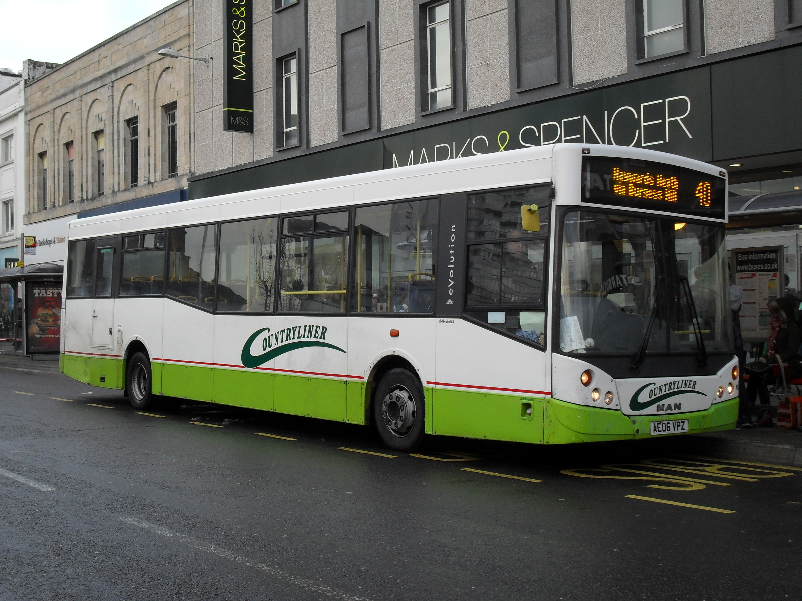 AE06 VPZ, a Countryliner Coaches bus, starts its route #40 journey to Haywards Heath on 18th December 2010.